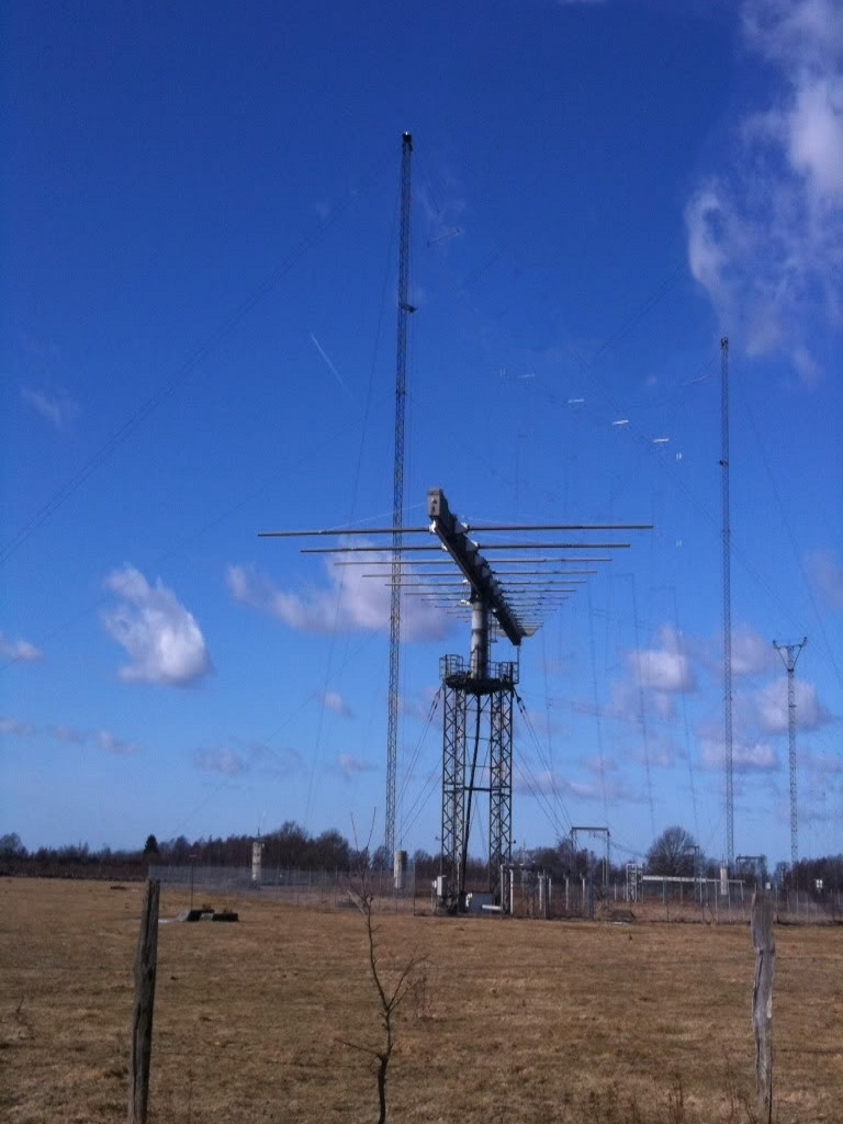 One of the LogPer-Antennas of Hörby shortwave radio station in 2010